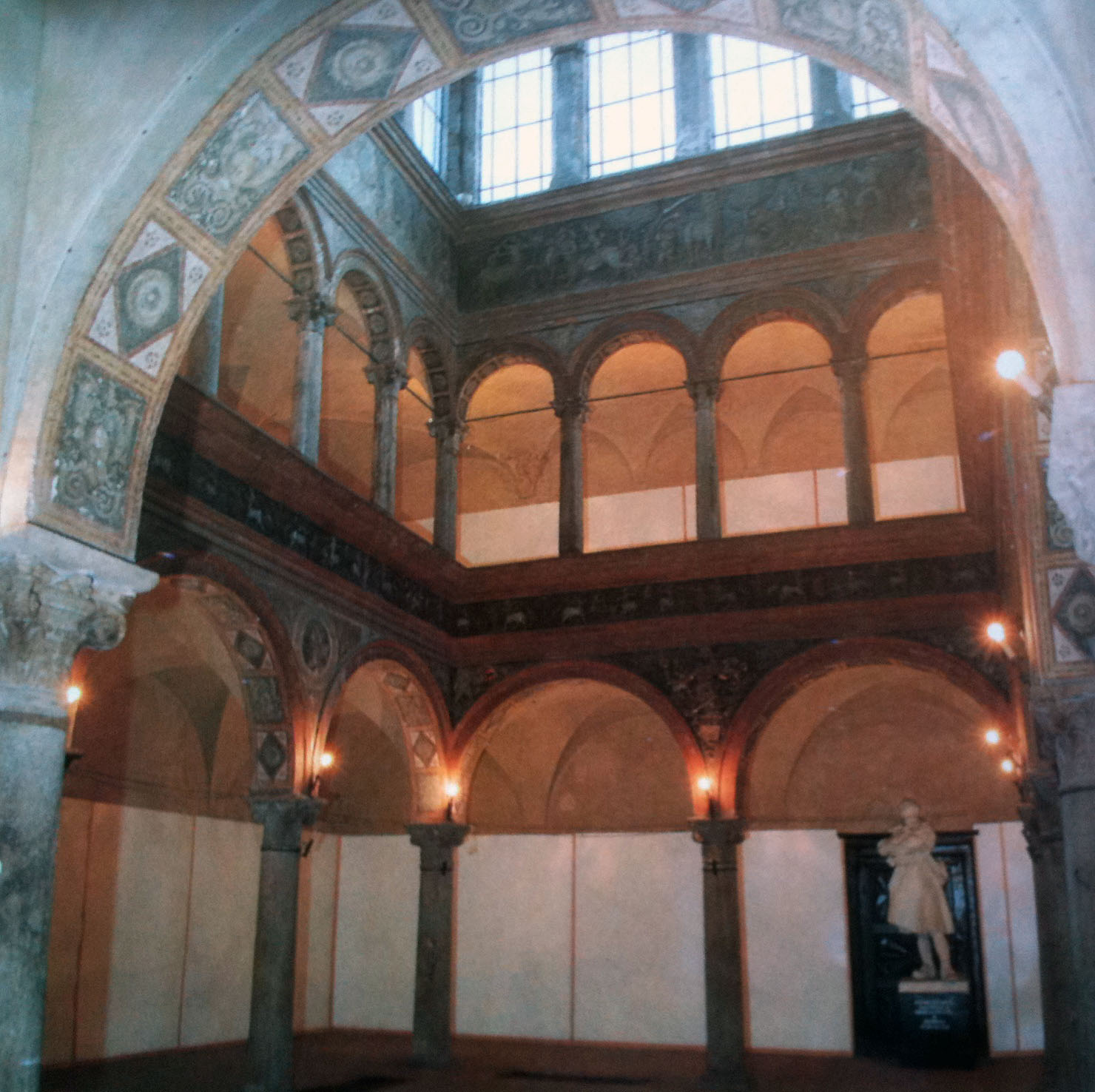 Palazzo Centoris Vercelli